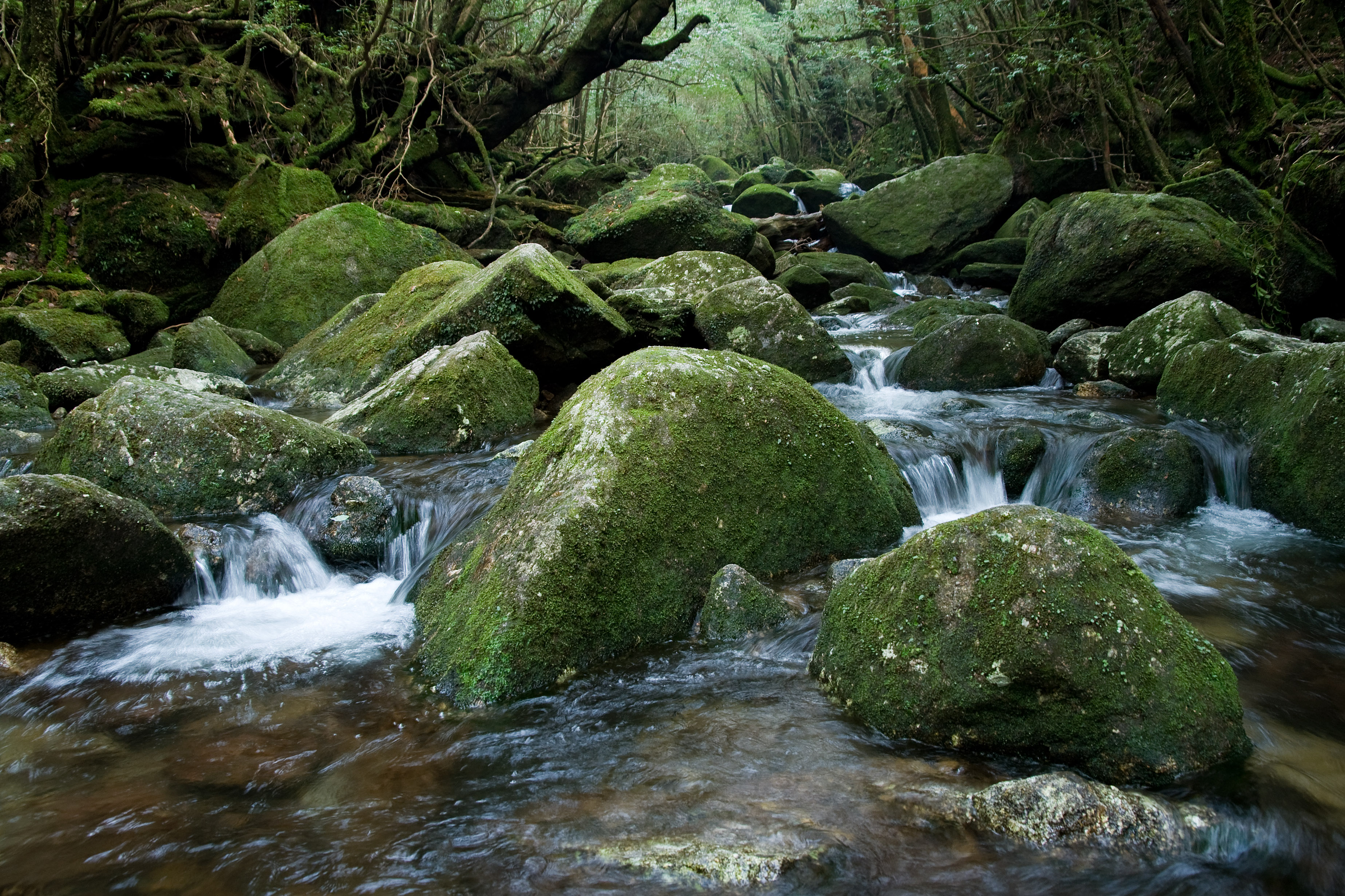 Forest in Shiratani Unsui Gorge, Yakushima, Kagoshima Pref., Japan.